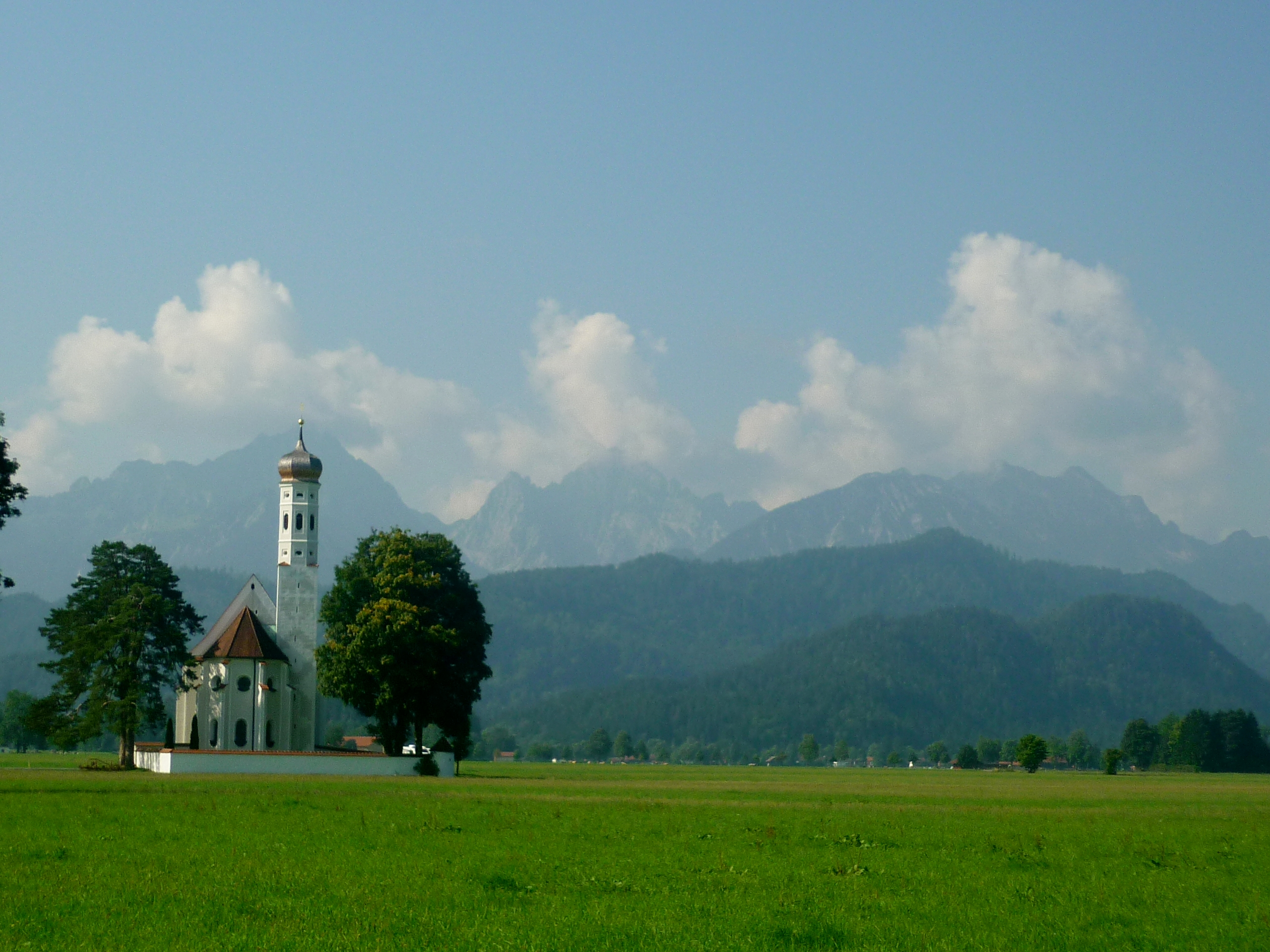 Countryside Ostallgäu